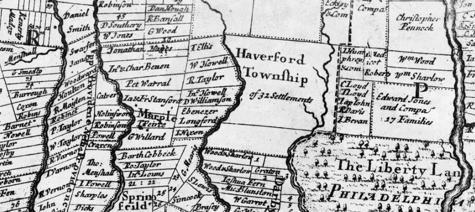 A map of the improved part of the Province of Pennsilvania in America : begun by Wil. Penn, Proprietary & Governour thereof anno 1681